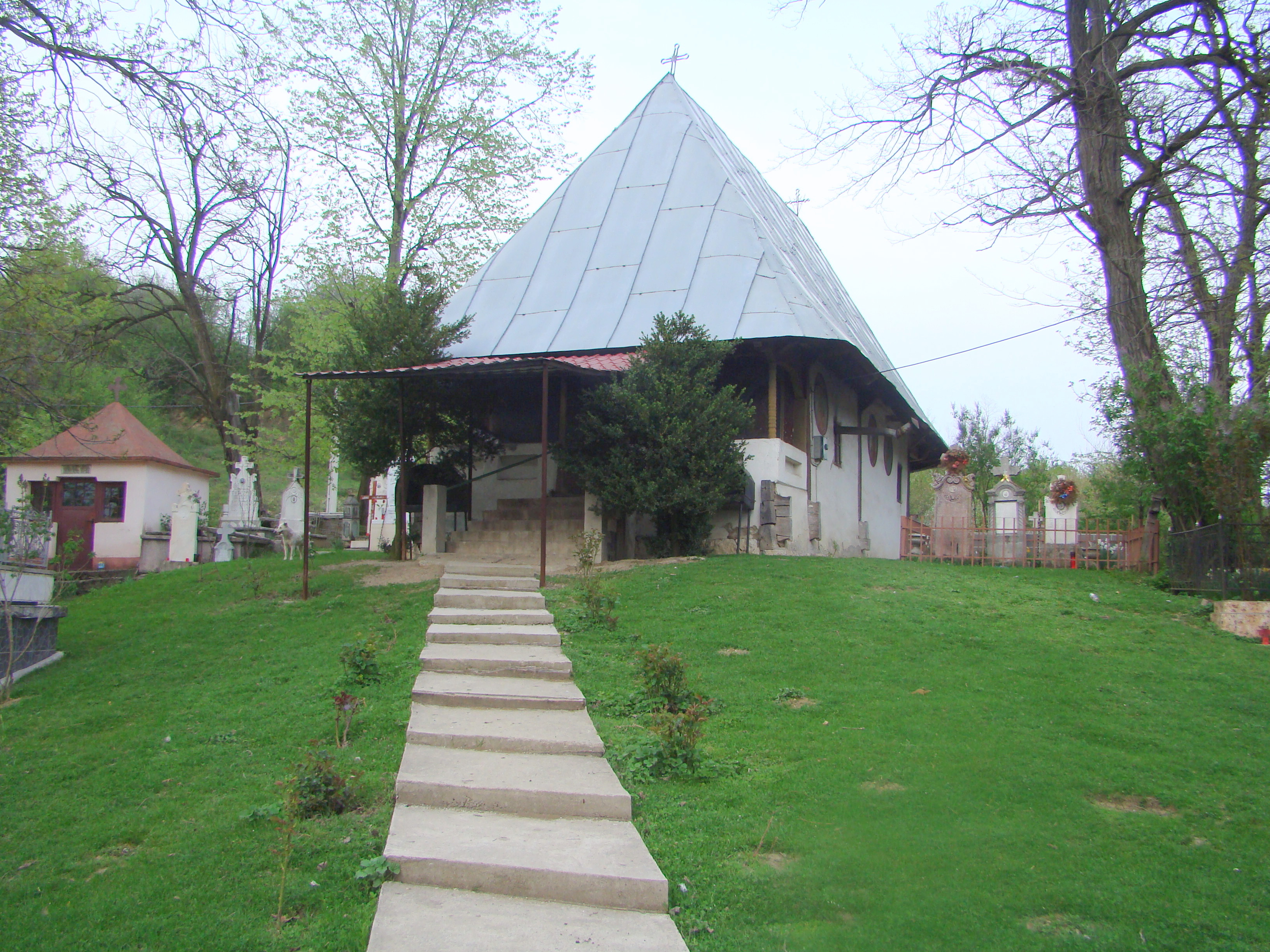 Wooden church in Miculești, Gorj county, Romania